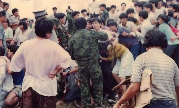 The picture shows a scene in which people madly snapped up stocks in Shenzhen in the 1990s.